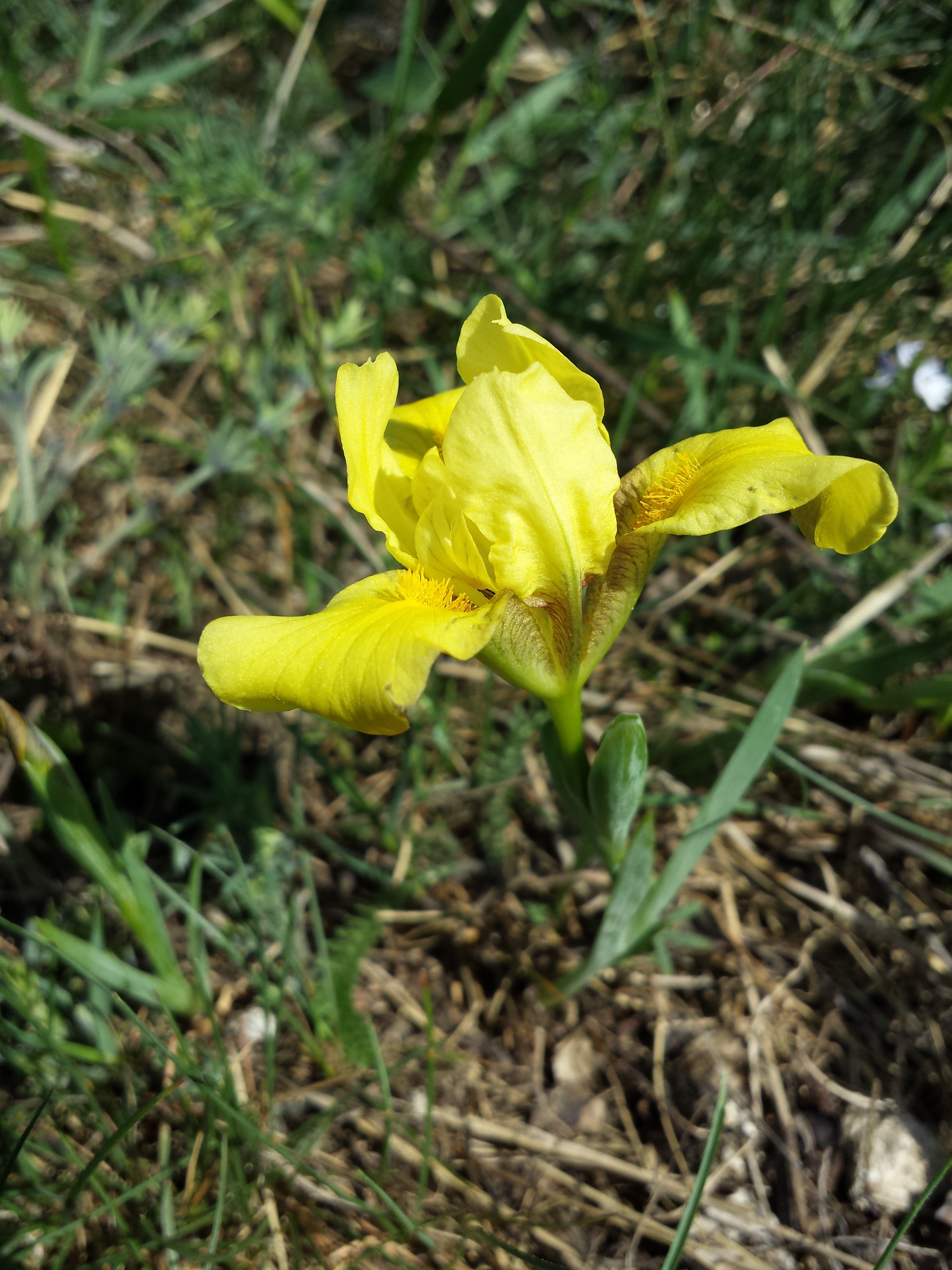 Periogone (individuum with perigone tails reflexed untypically) Taxon: Iris humilis subsp. arenaria (sensu Fischer et al. EfÖLS 2008 ISBN 978-3-85474-187-9) Location: Svatý kopeček, Mikulov, Jihomoravský kraj, Czech Republic - 363 m a.s.l. Habitat: rock steppe (lime rock)